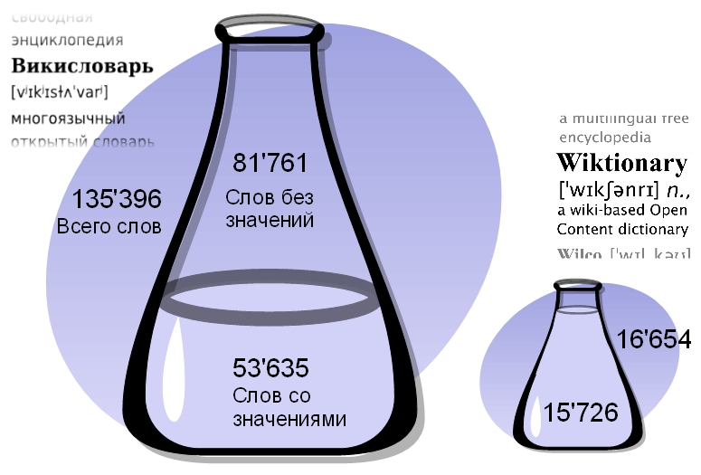 The relative distribution of Russian words in the Russian Wiktionary (left, the edition as of May 21, 2011) and in the English Wiktionary (right, the edition as of October 8, 2011).